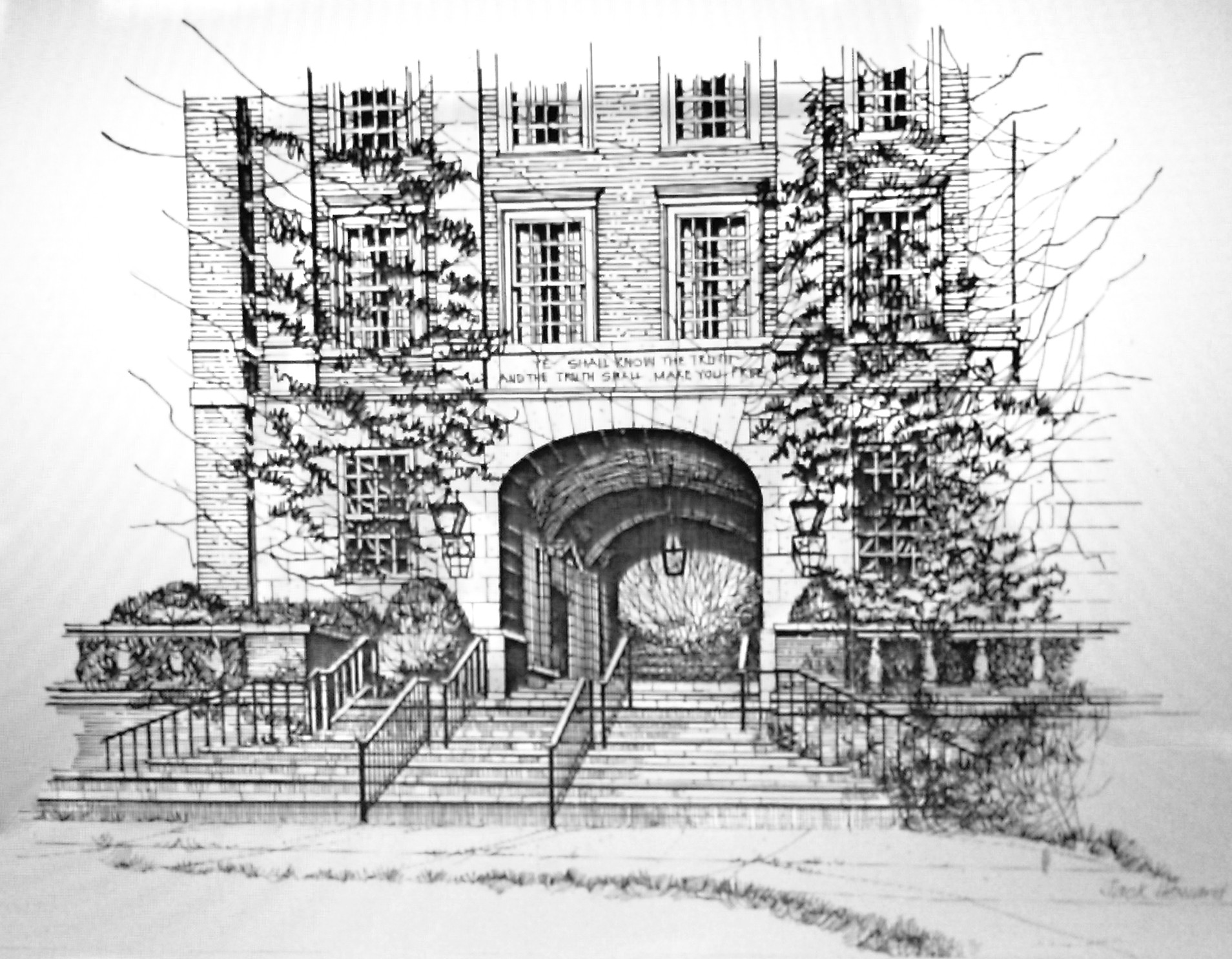 Old sketch of Upham Hall